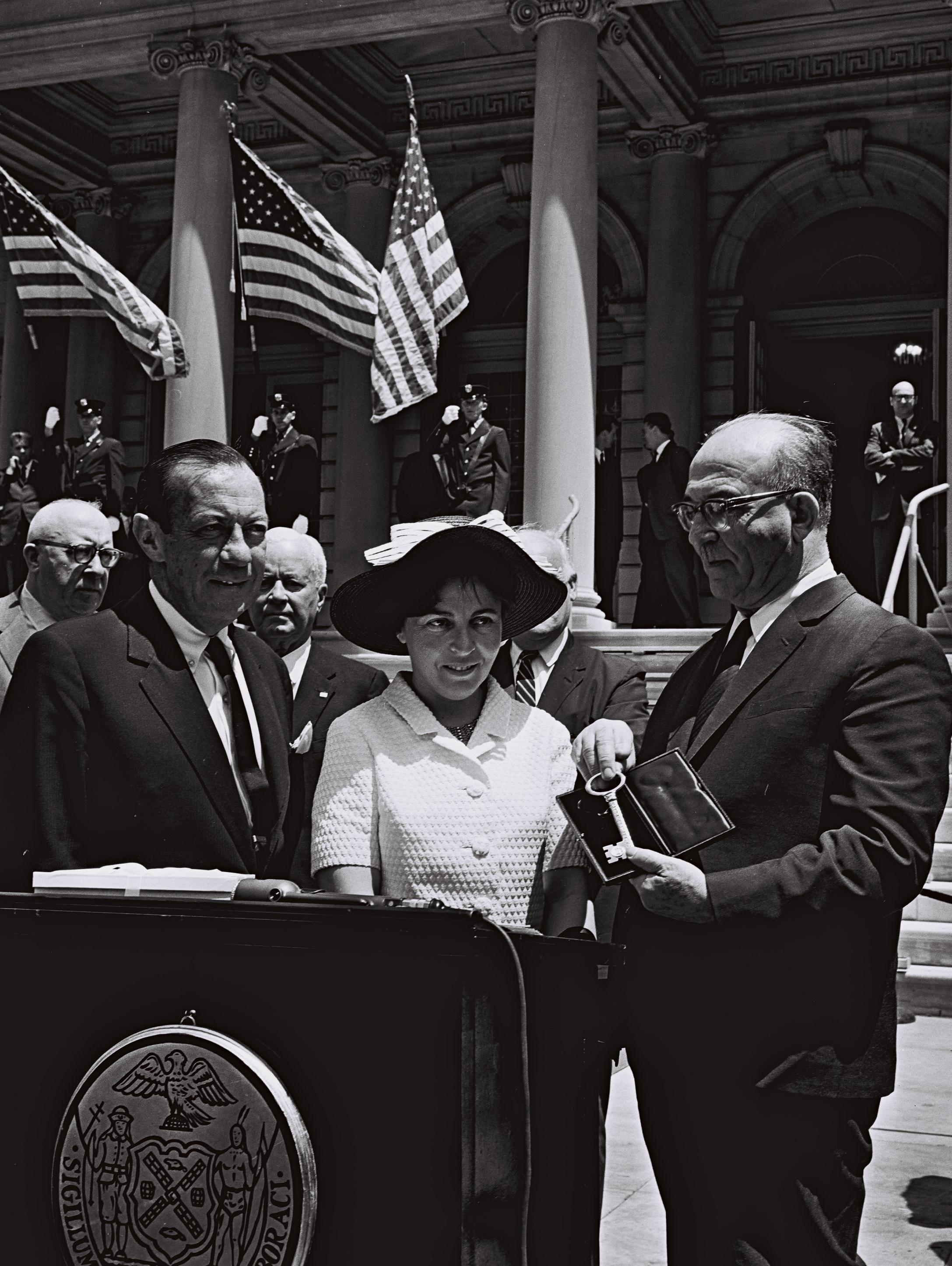 P.M. AND MRS. ESHKOL WITH MAYOR ROBERT WAGNER AFTER RECEIVING THE KEY OF THE CITY DURING THE OFFICIAL WELCOME CEREMONY OUTSIDE CITY HALL IN NEW YORK.